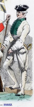 Soldat of the Régiment de Forez in 1778 just after formation, still with the old Bourbonnais uniform.